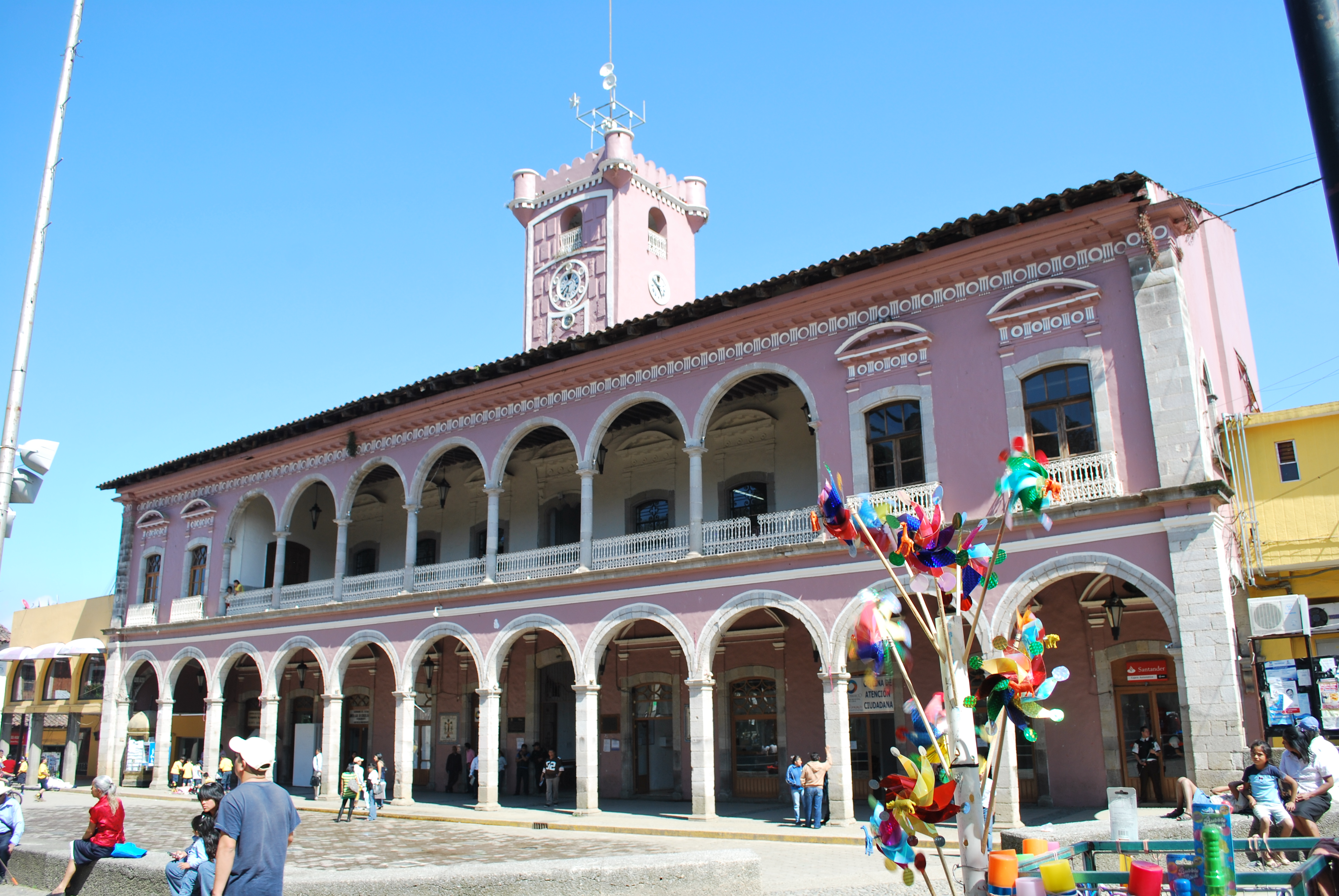 Municipal palace of Huauchinango, Puebla, Mexico